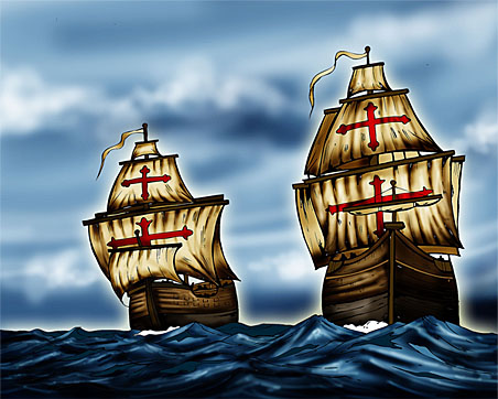 The two Manila galleons-the "Encarnacion" and "Rosario" during the five battles of La Naval de Manila in 1646. Original illustration by John Ryan M. Debil